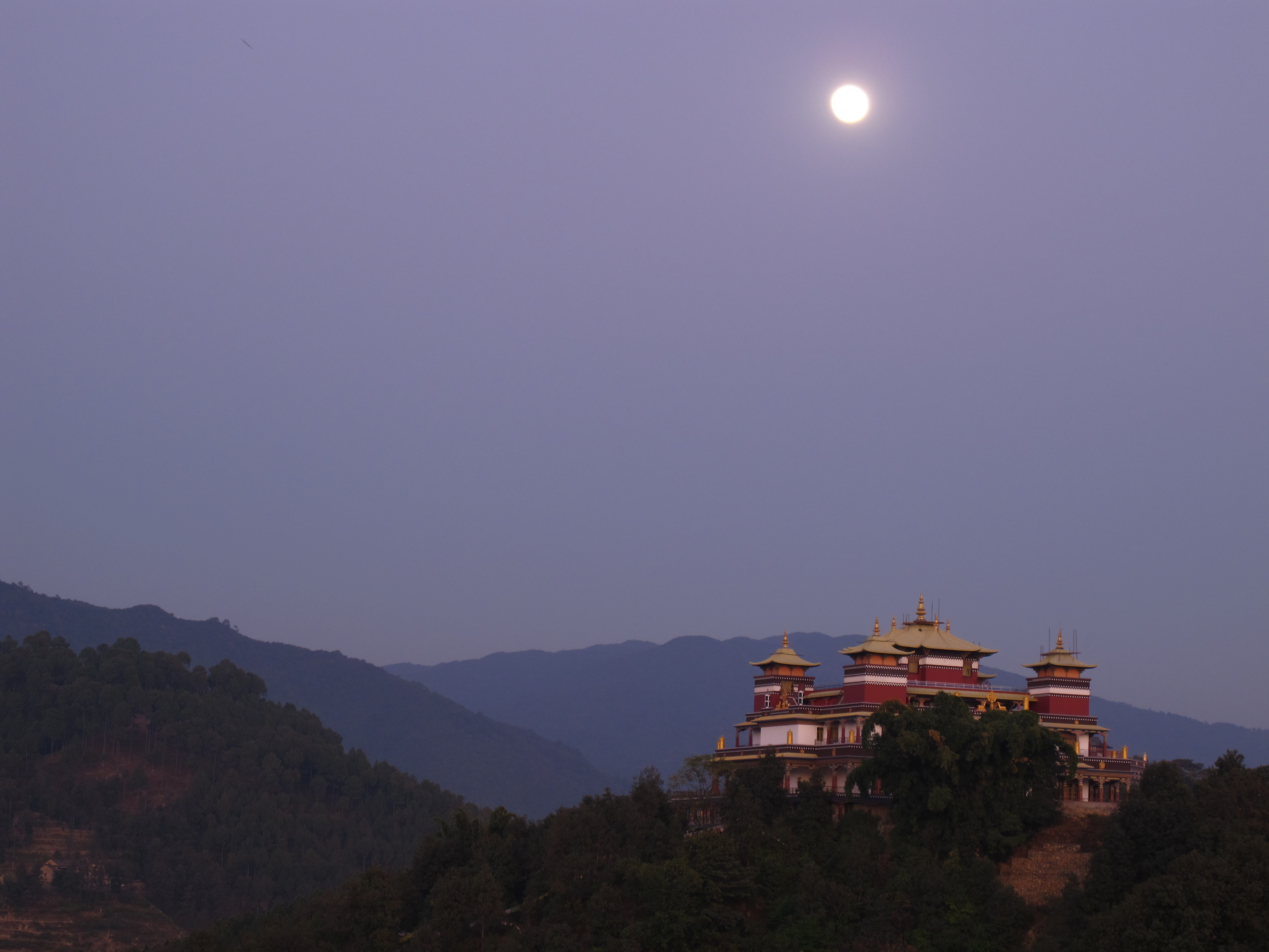 Amitabha Monastery (photo from Kopan)